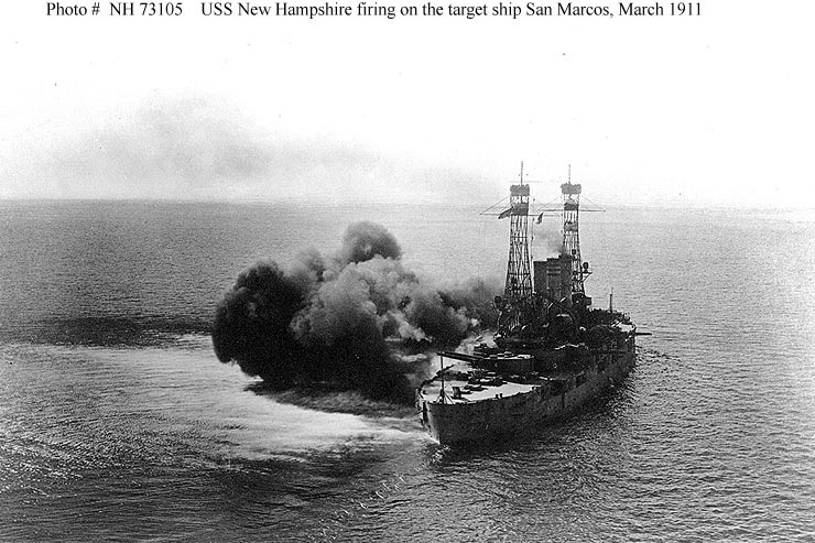 Photograph of the USS New Hampshire (BB-25) firing a broadside March 1911.